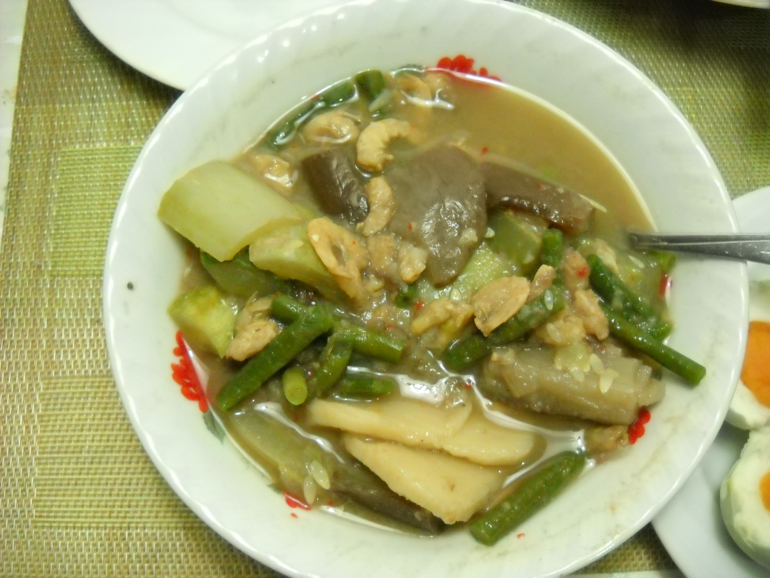 Lempah Darat, stew dish of vegetables and fish paste (terasi) from Bangka, Indonesia.